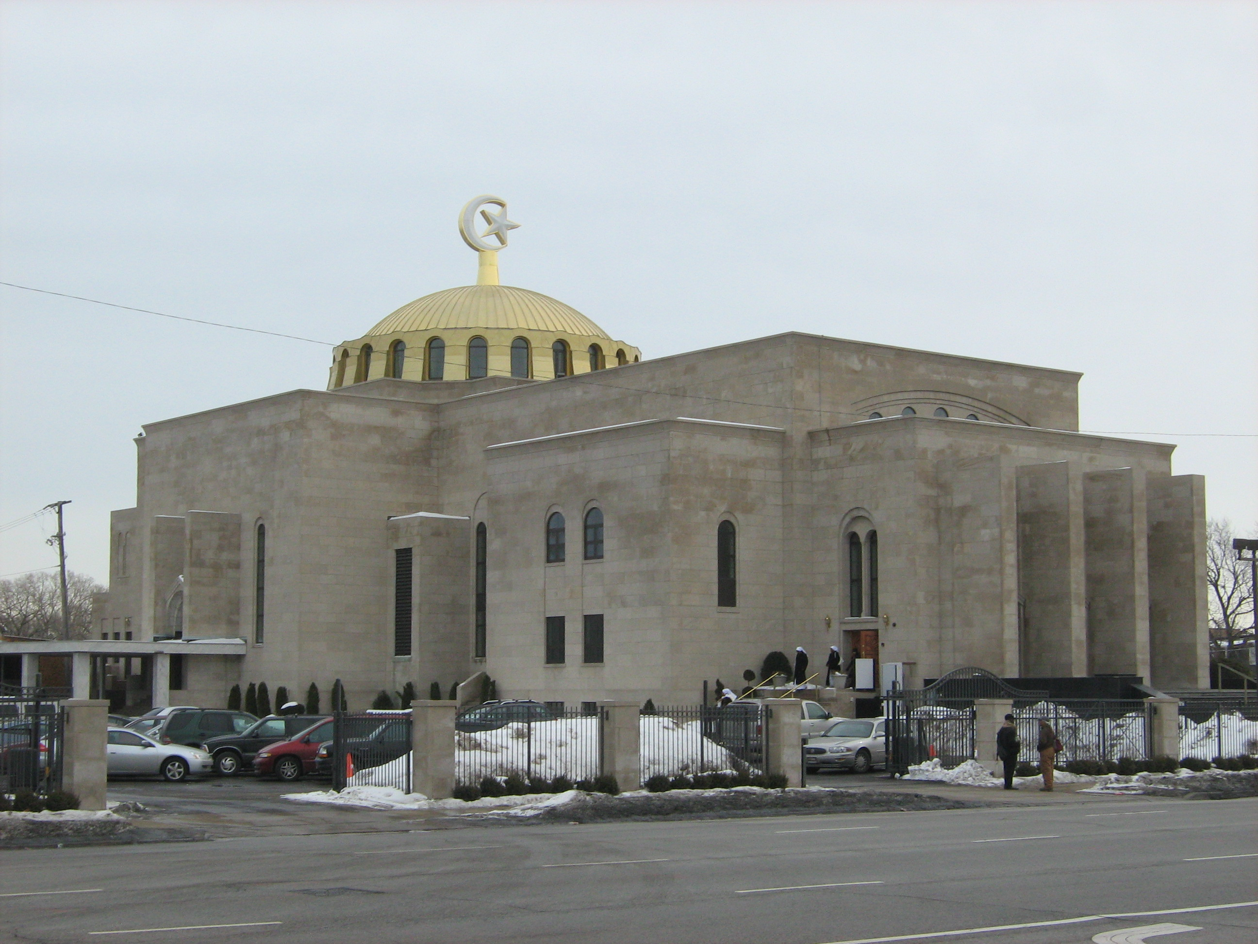 7351 S Stony Island Ave Chicago, IL 60649